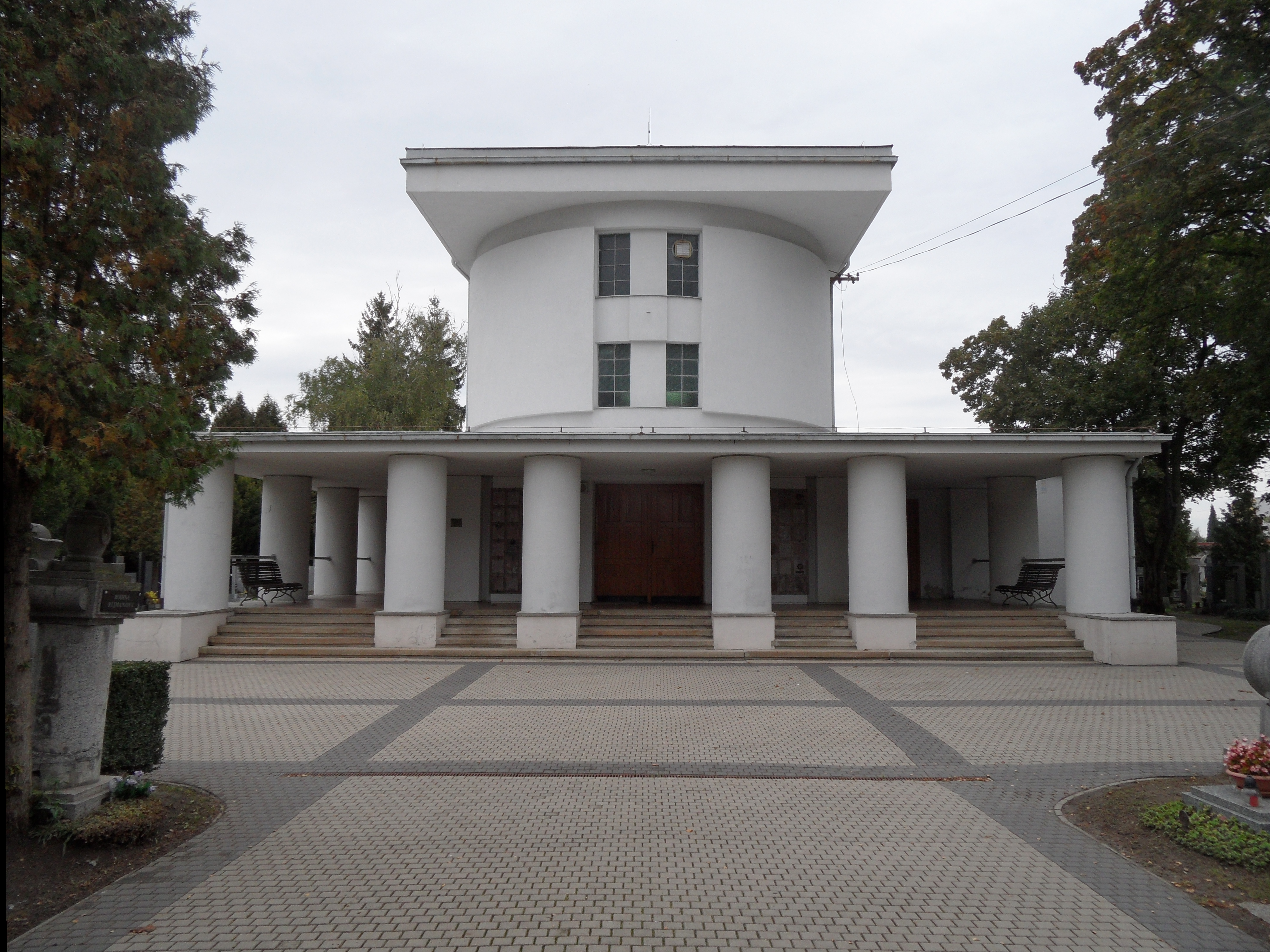 Drahelice H. Crematorium: Frontal View (Roughly from South), Nymburk District, the Czech Republic.